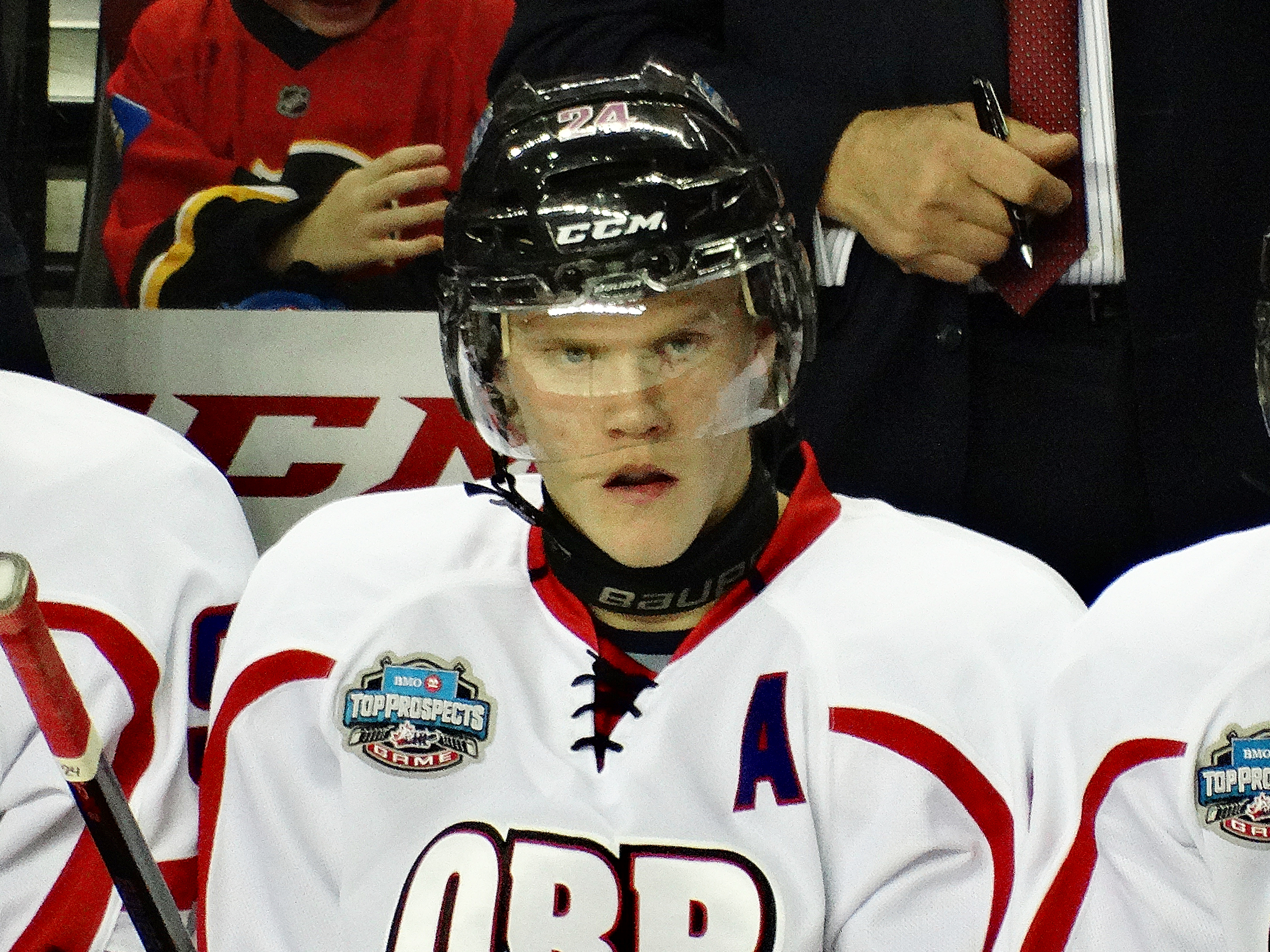 Nikolaj Ehlers, Danish ice hockey left winger at the CHL / NHL Top Prospects Game